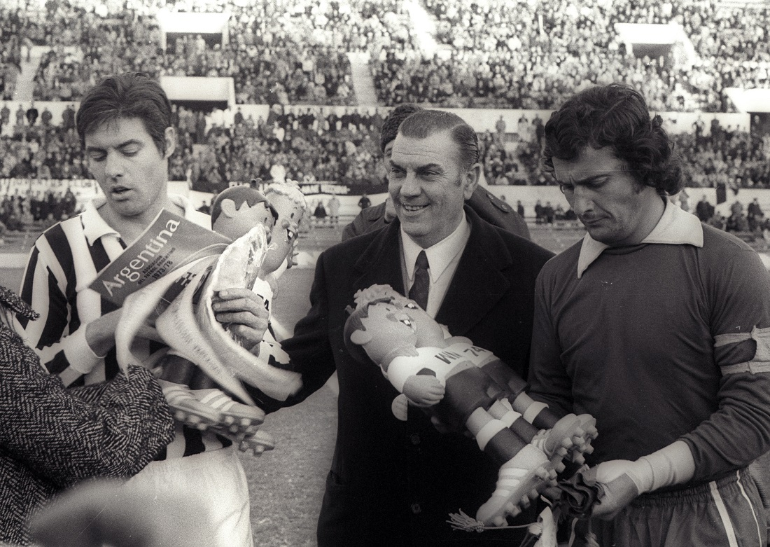 Rome (Italy), Olympic Stadium, November 28, 1973. Juventus F.C. — C.A. Independiente 0-1, 1973 Intercontinental Cup: before the kick-off, Juventus' Sandro Salvadore (left) and Independiente's Miguel Ángel Santoro (right), clubs' captains, receives "Tip and Tap", mascottes of upcoming 1974 FIFA World Cup.